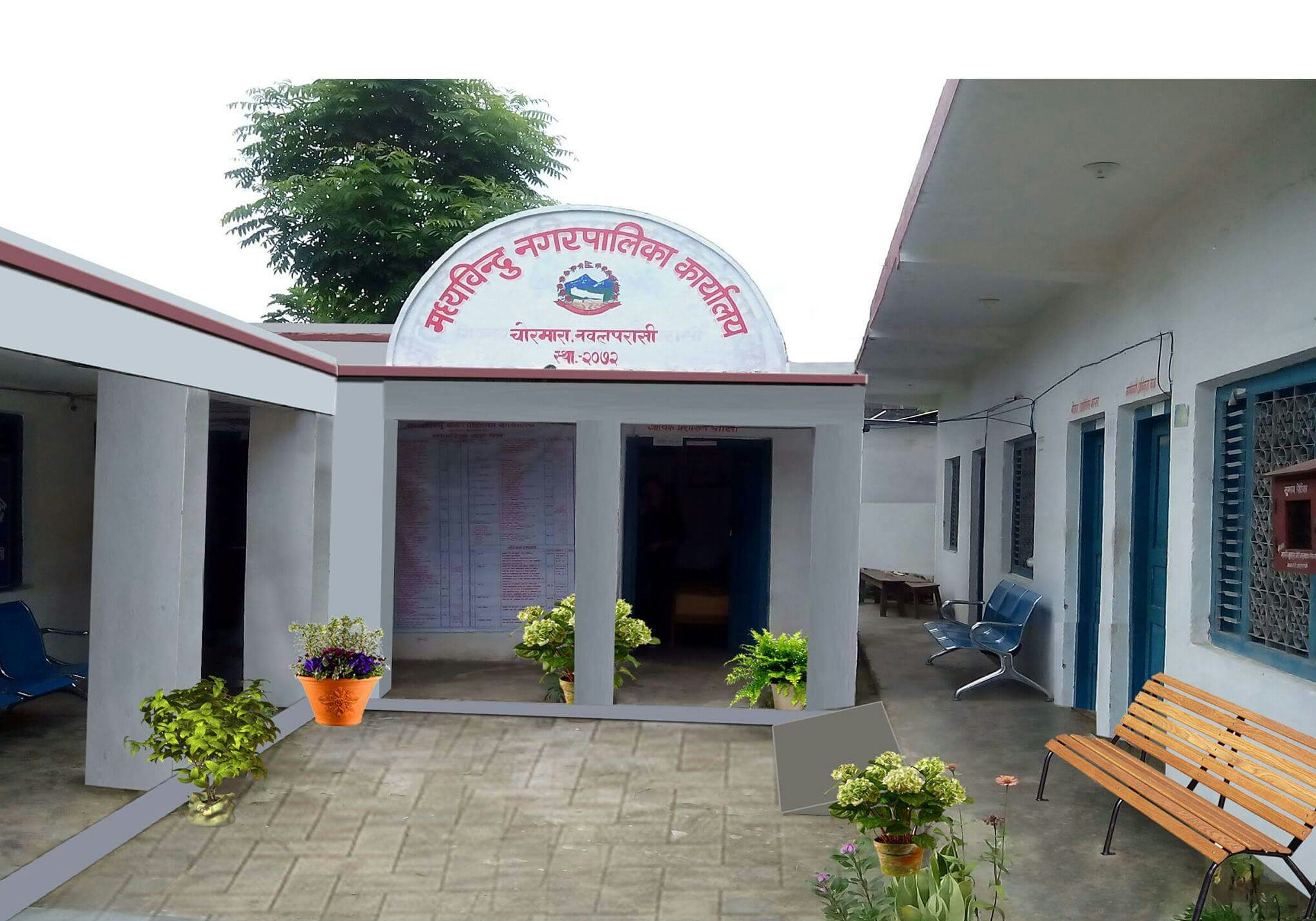 Madhyabindhu municipality office building.